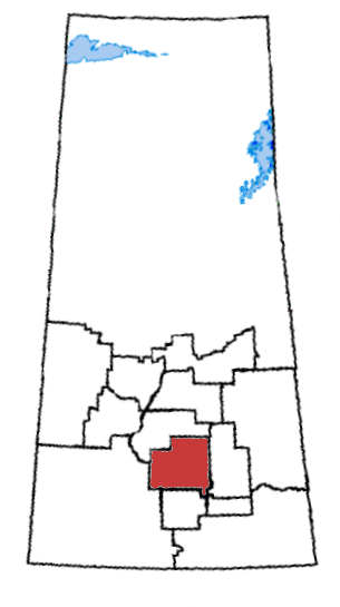 Map of the Regina—Lumsden—Lake Centre electoral district. Based on Earl Andrew's maps, created by SimonP.